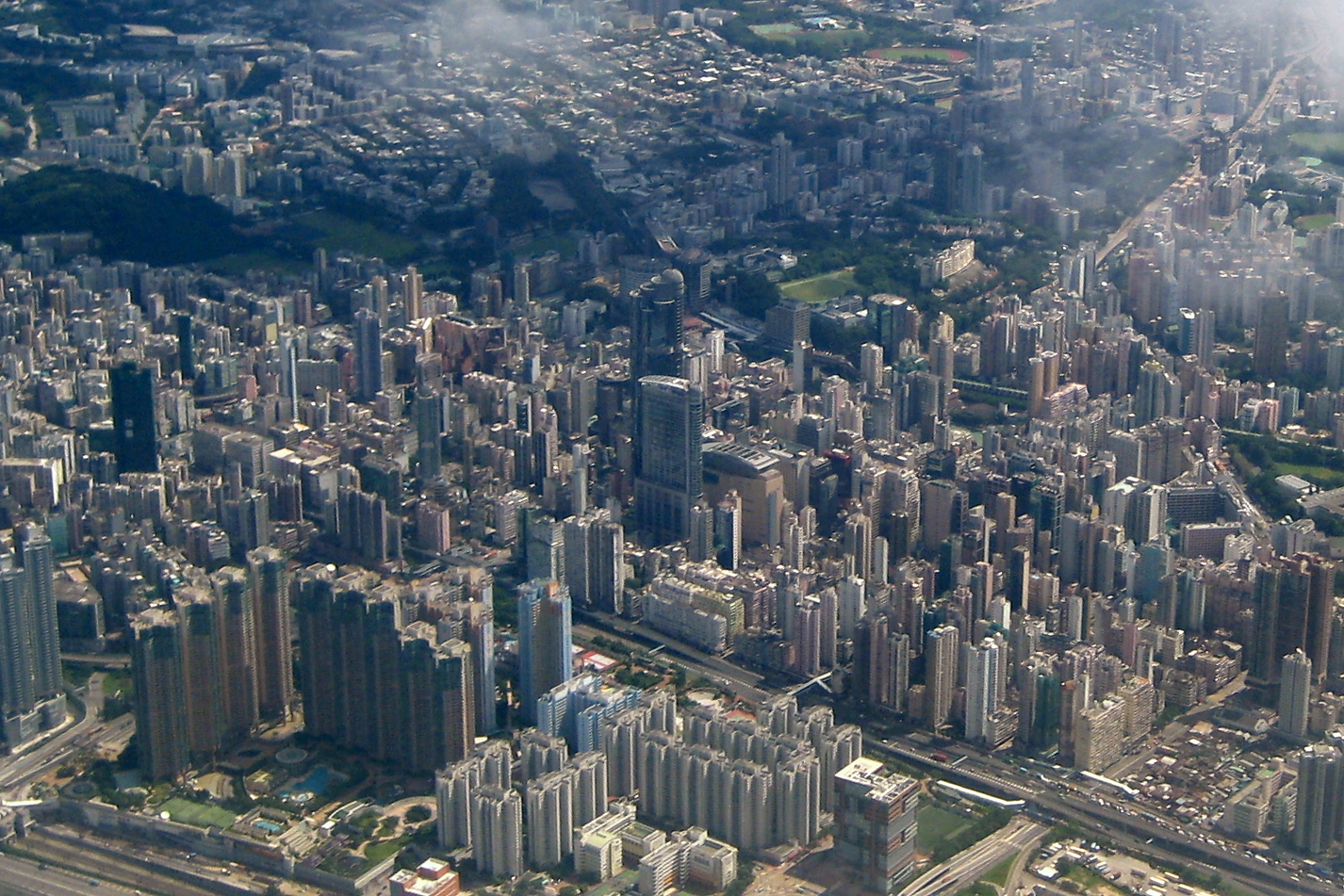 Mong Kok, Kowloon and its surrounding area. Taken over sky from a Airbus A340 during departure.